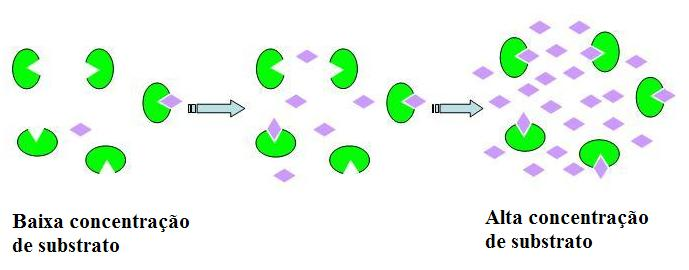 Saturation of an enzyme